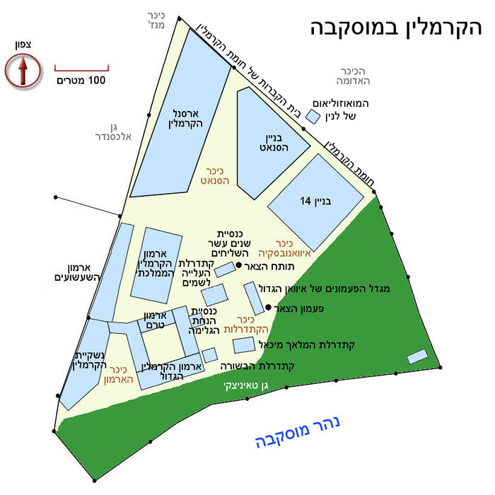 Map of the Moscow Kremlin